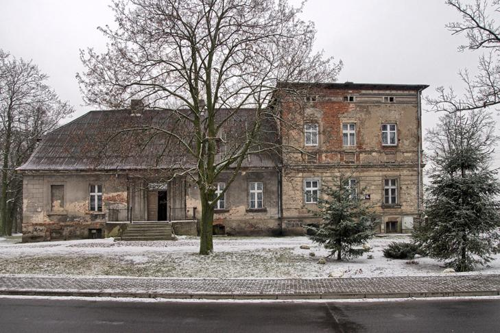 Łagiewniki Kościelne Dwór